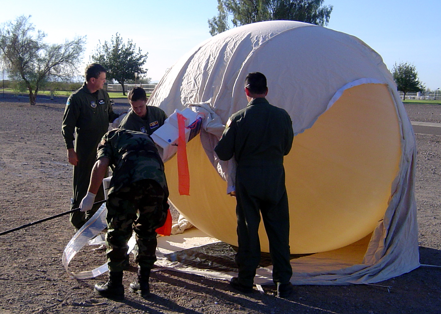 Members of the 17th Test Squadron and their Air Force Reserve counterpart from the 14th Test Squadron, team up to test a Combat SkySat, a system designed to provide extended-range communications to units operating in the field.